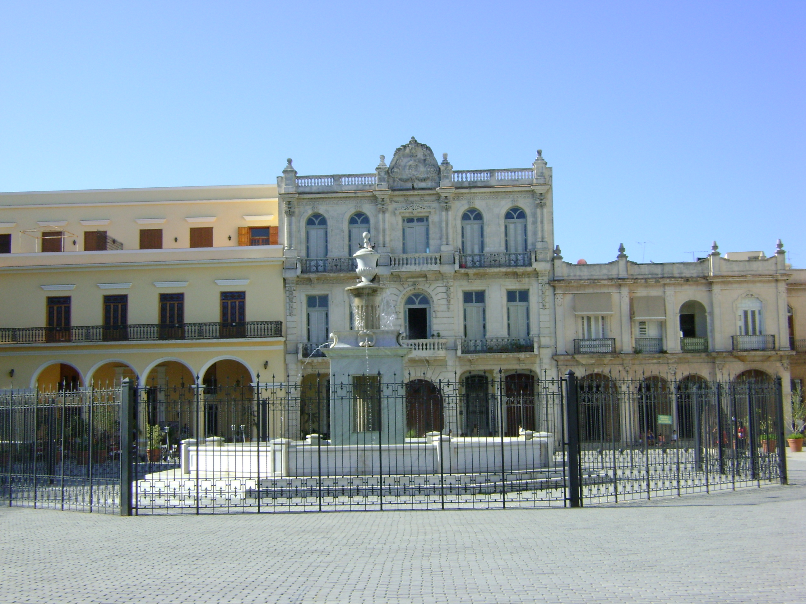 Plaza Vieja - Old Town Square, is in Havana Vieja -Old Havana, cuba. It was originally called Plaza Nueva. It emerged as an open space in 1559, after the Plaza de Armas and San Francisco respectively, although some authors point out that it was the second place in Havana. The area of the square is bounded by Muralla, Mercaderes, Teniente Rey and San Ignacio streets. The square represents the first planned attempt of expansion of the city. It was an area used for different modalities, such as area of residence, commercial and recreational buildings.